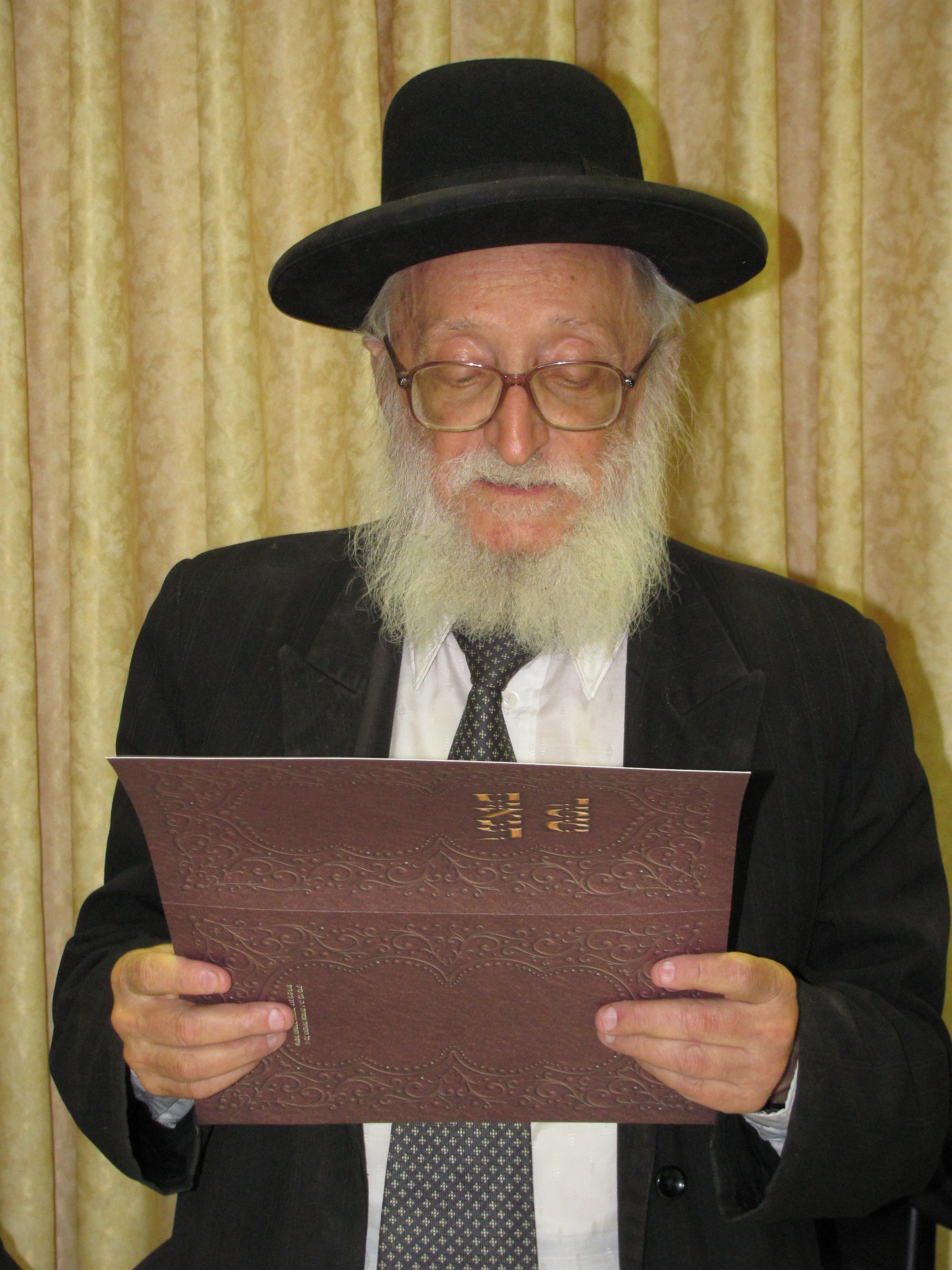 Rabbi Mendel Weinbach, rosh yeshiva, Yeshivat Ohr Somayach, Jerusalem